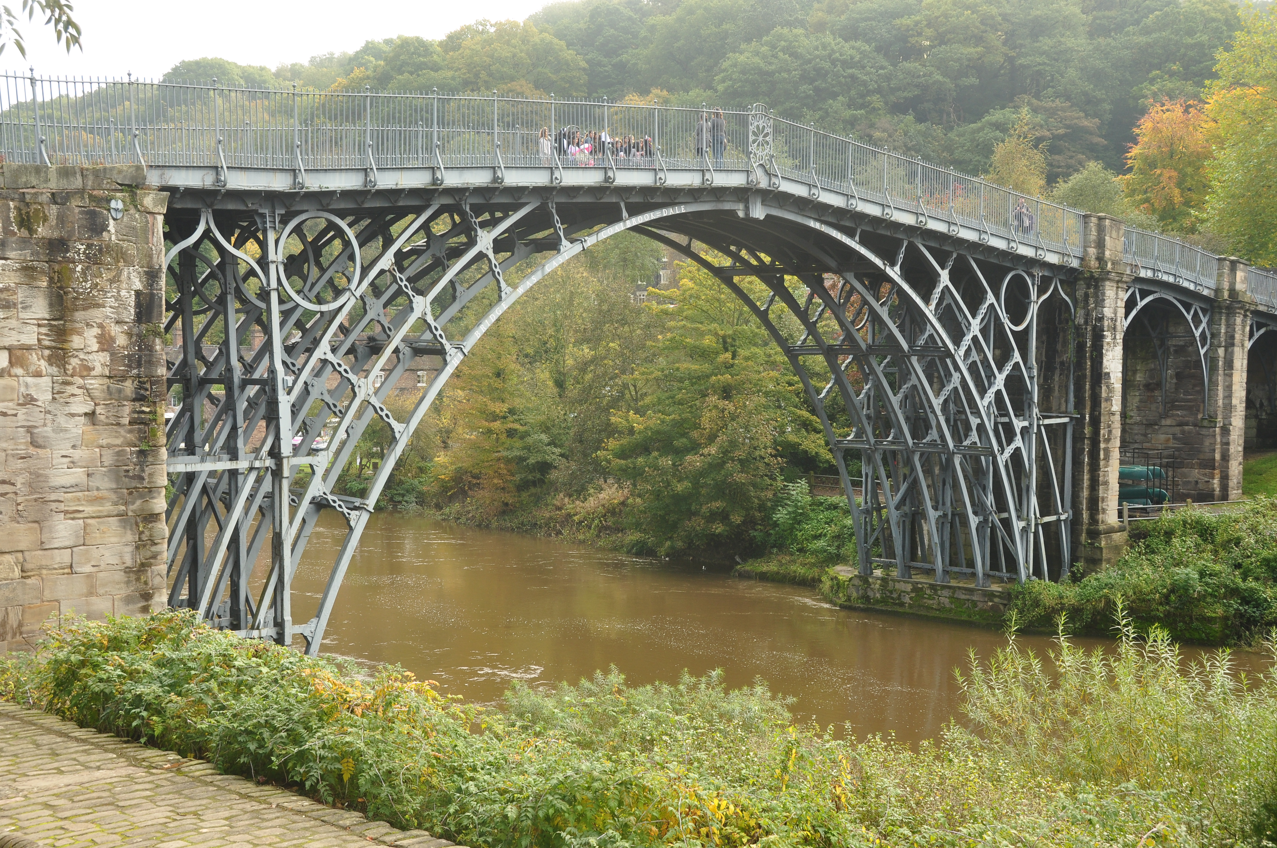 The Iron Bridge